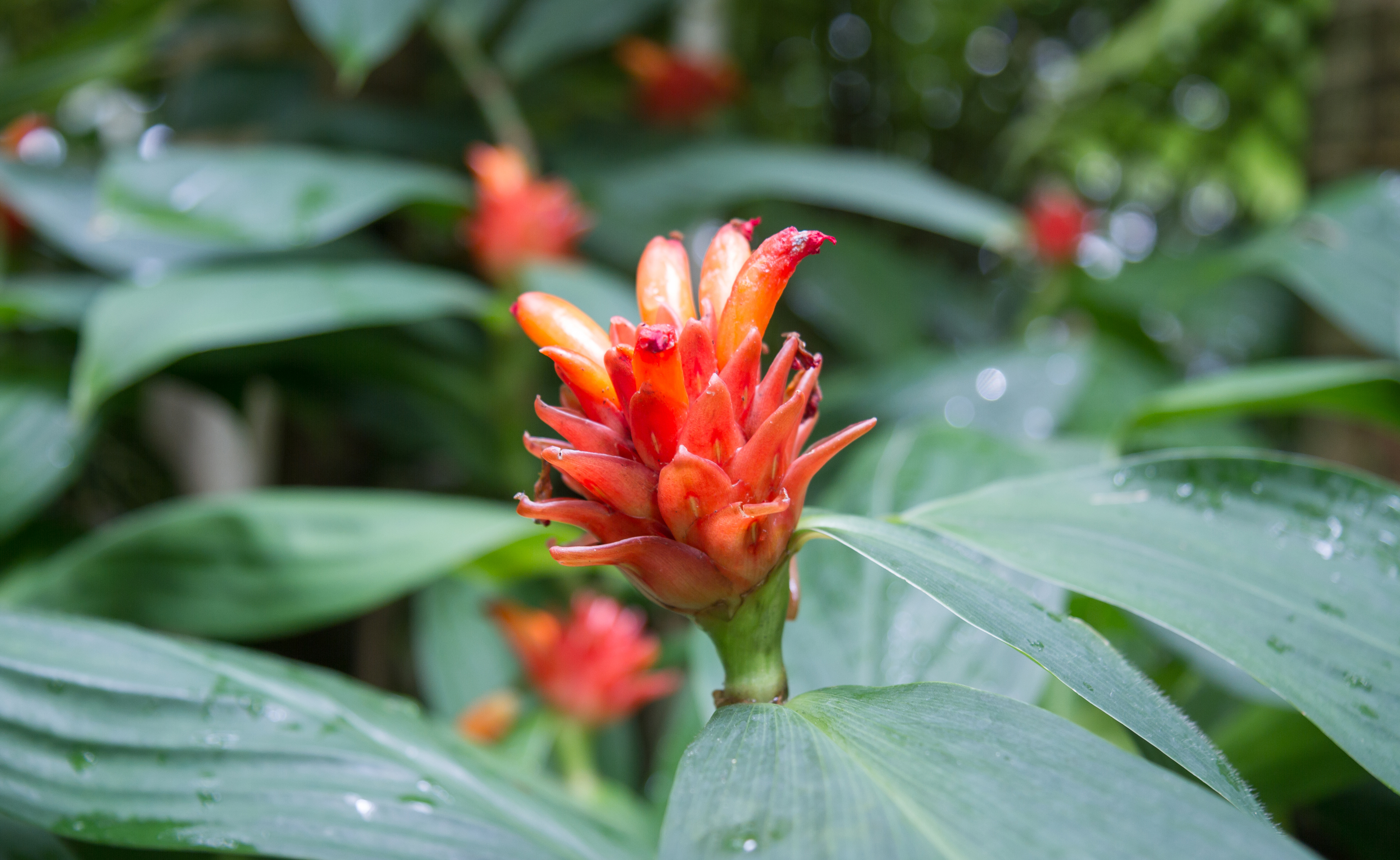 A flowering Costus curvibracteatus at the Conservatory of Flowers.